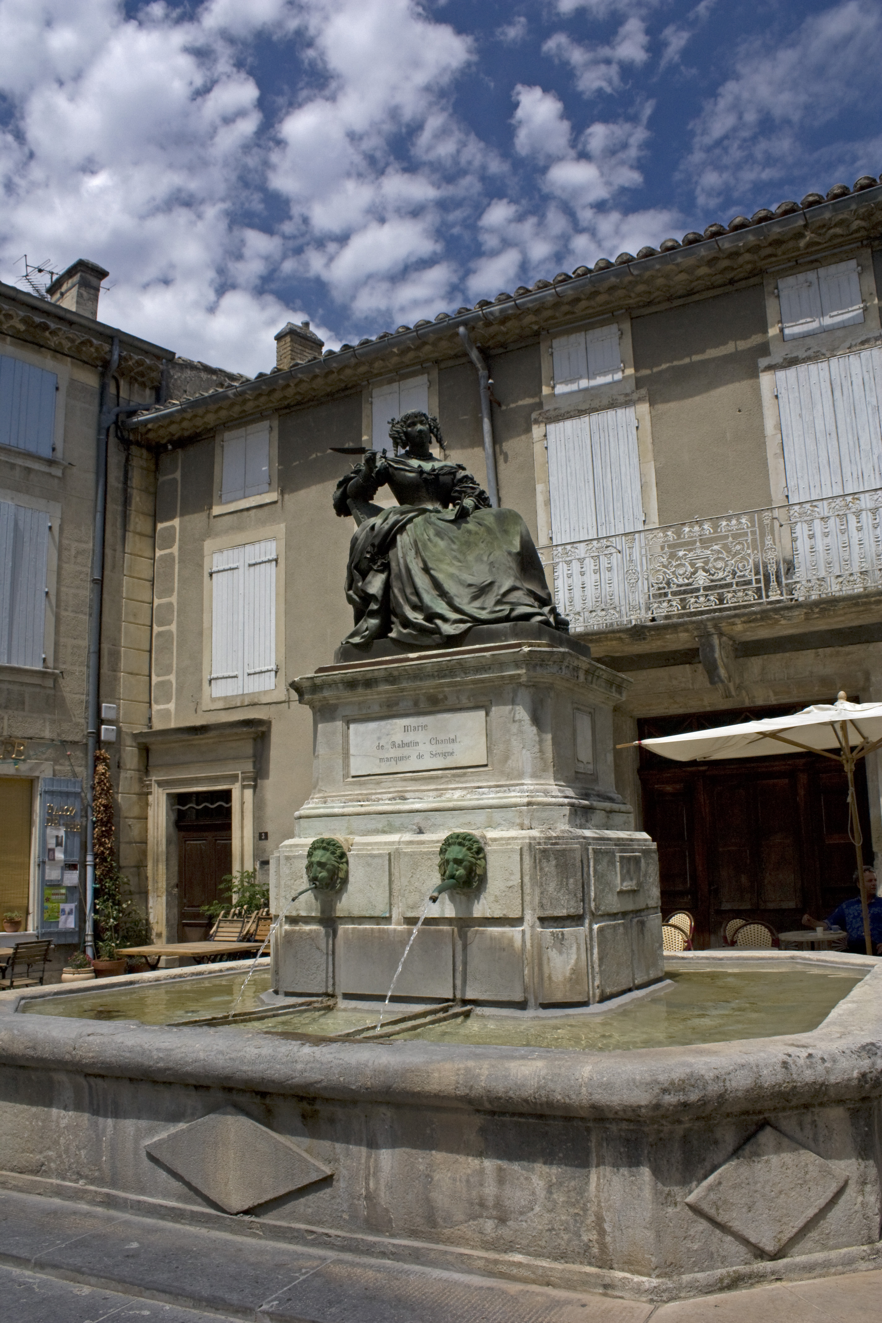 Fountain of the Marchioness, place de Sévigné.